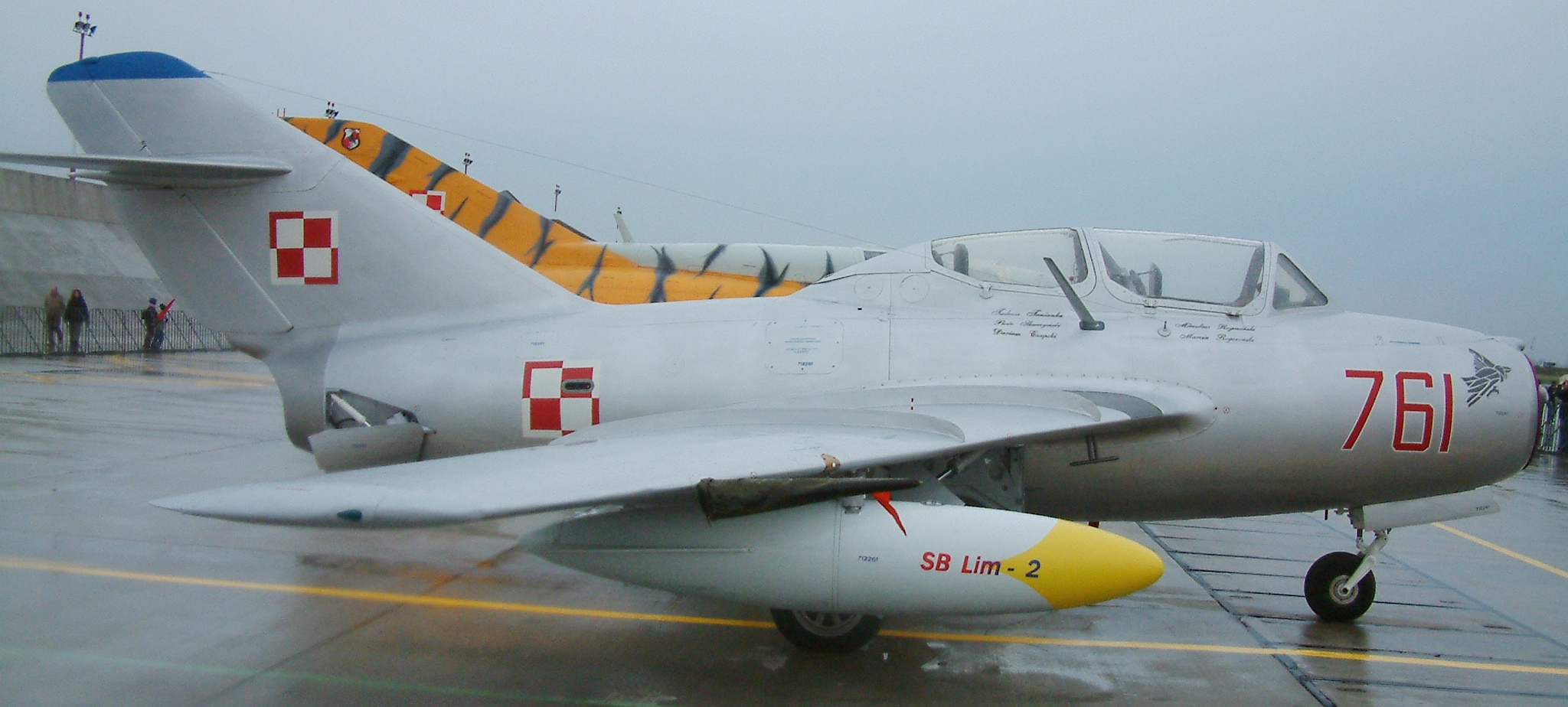 SB Lim-2 (MiG-15UTI) #761 of Polish Air Force, 31st Air Base, Poznań-Krzesiny